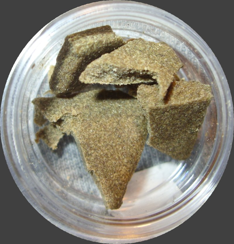 1.5 gms of pressed cannabis Indica trichomes from the Goo strain made by ice-extraction method.